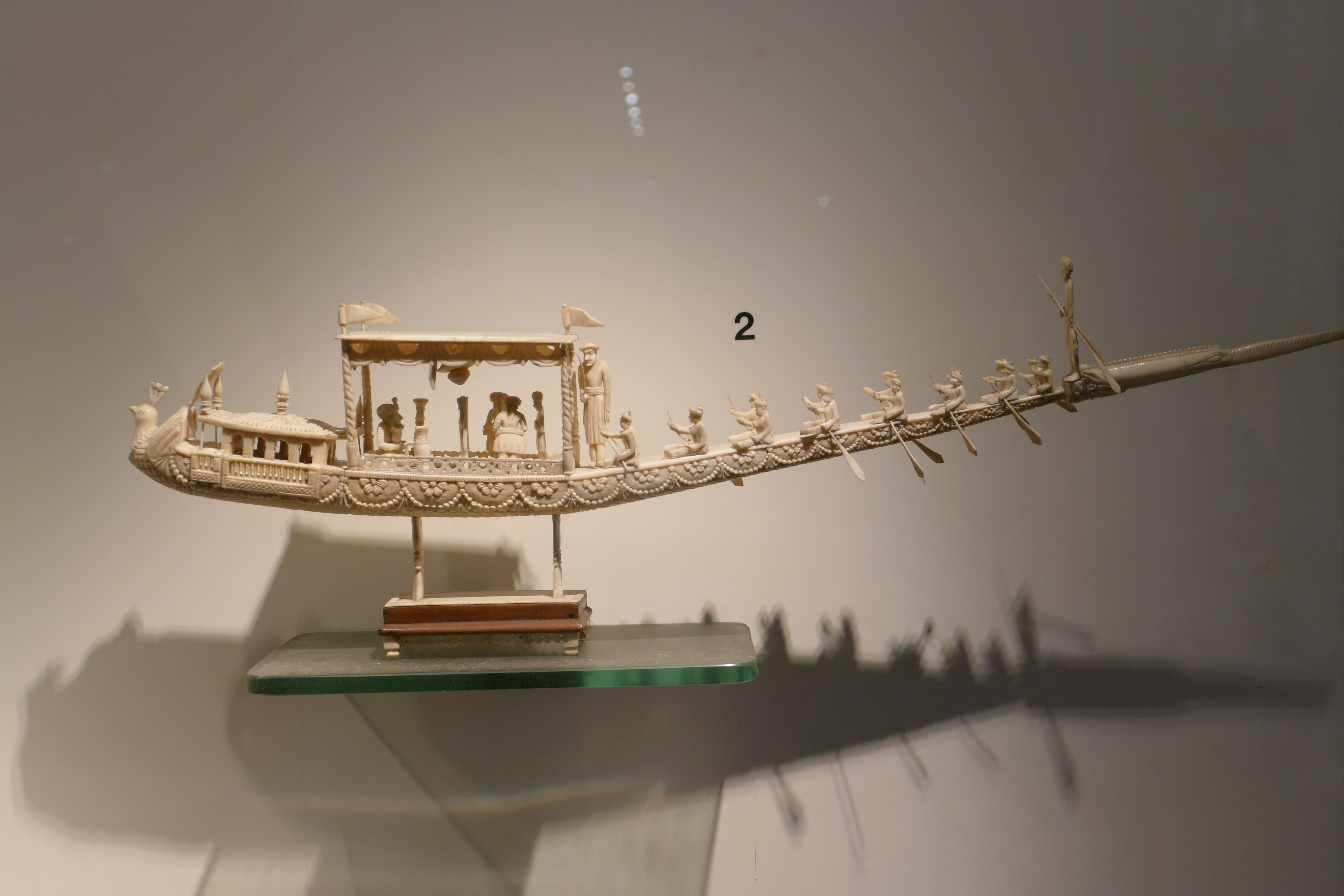 Ivory carving in the Indian Museum, Kolkata - Pleasure boat, Mushidabad, 19th century